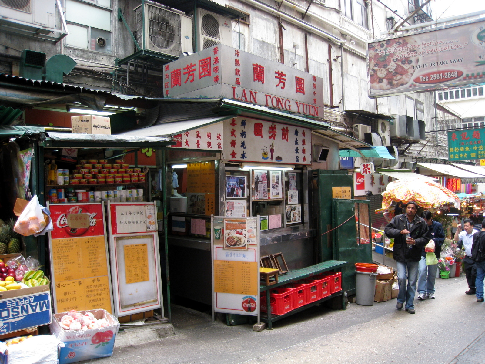 HK Lan Fong Yuen Old Shop